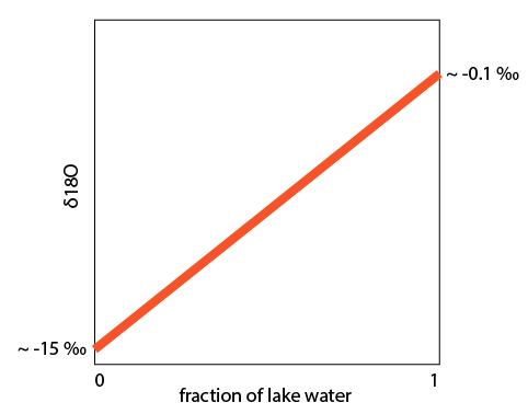 The d18O of a mixture between lake water and riverine freshwater would fall on the red line. The d18O composition of a mixture would depend on the fraction of lake water to riverine freshwater.